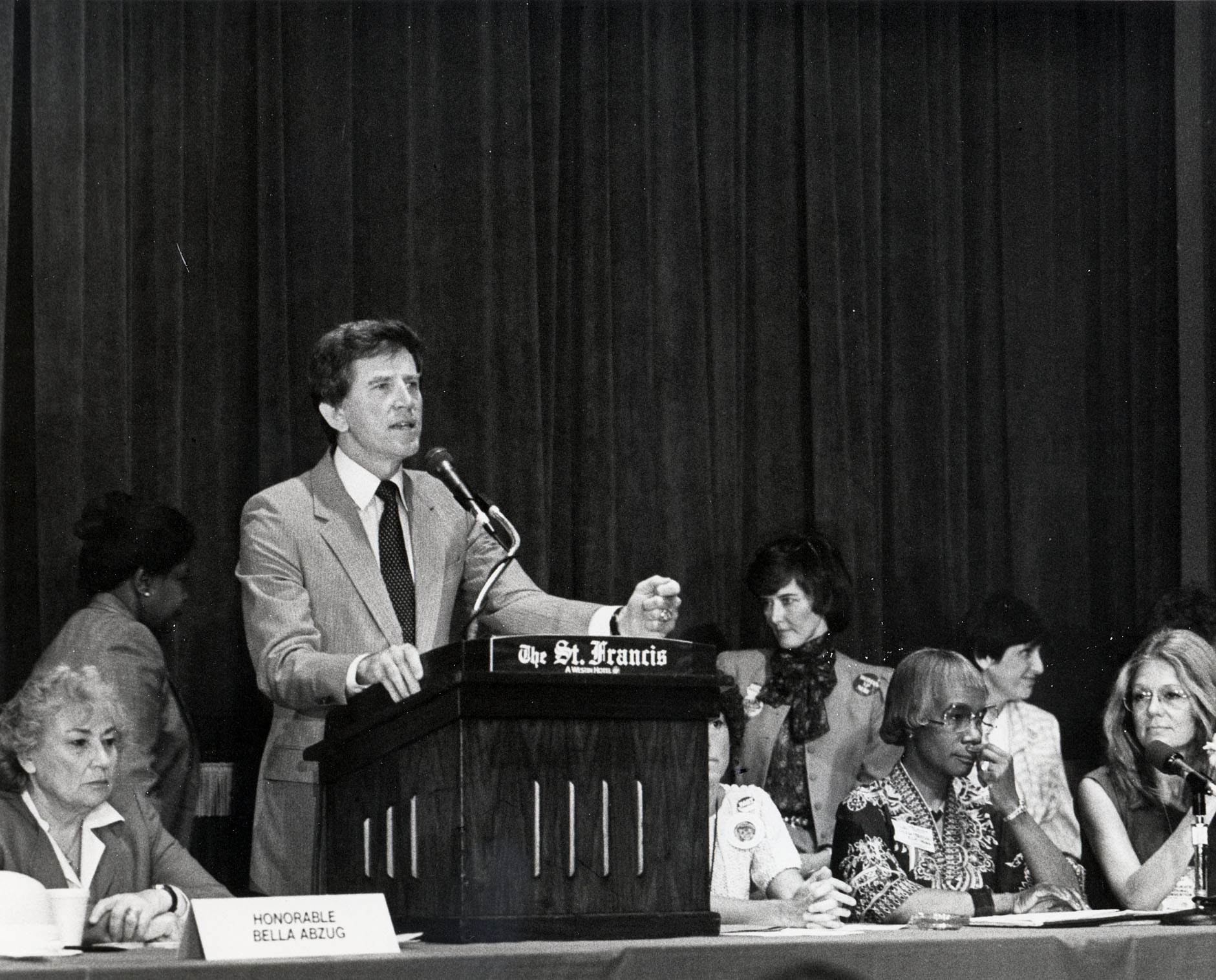 Colorado Demoncratic Senator Gary Hart at the 1984 Democratic National Convention in San Francisco, California. Photograph by Nancy Wong